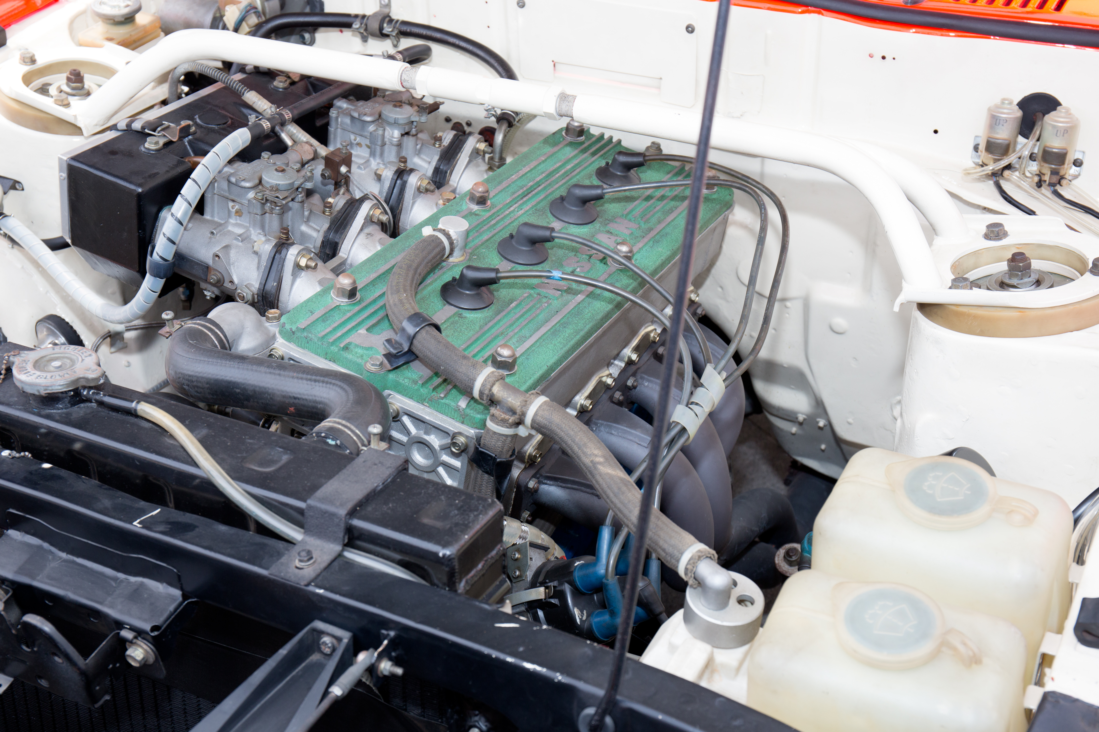 Motorsport Japan 2015: Nissan LZ20B engine on the 1982 Nissan Violet (Group 4)